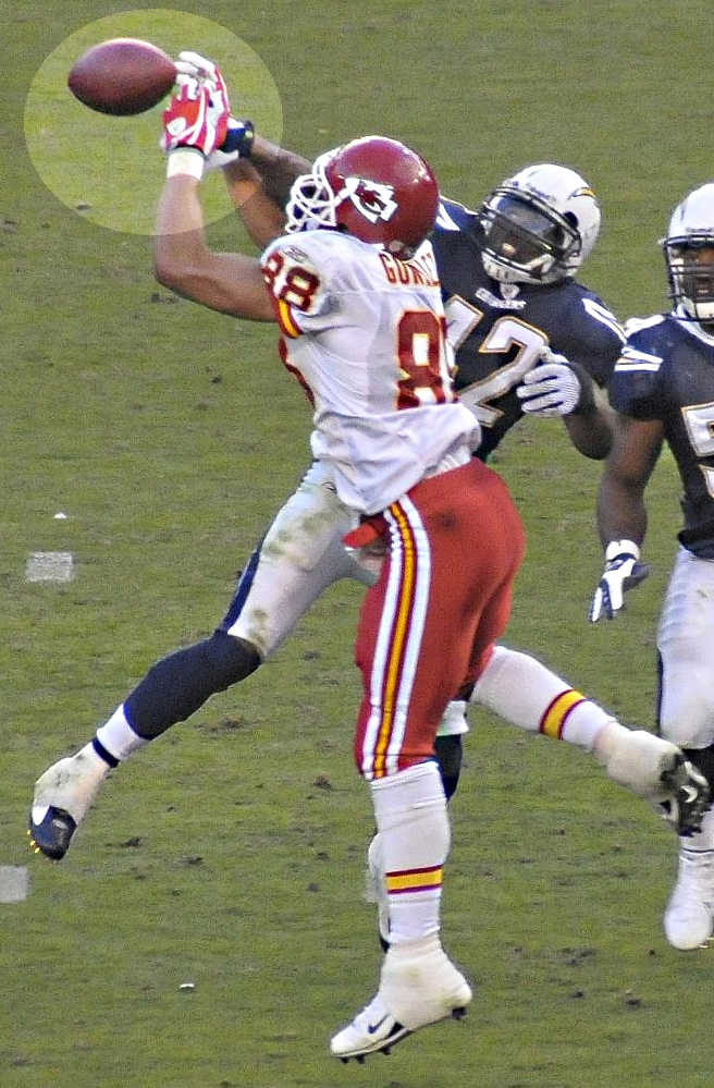 A pass interference call against San Diego Chargers safety Clinton Hart for making physical contact on Kansas City Chiefs tight end Tony Gonzalez